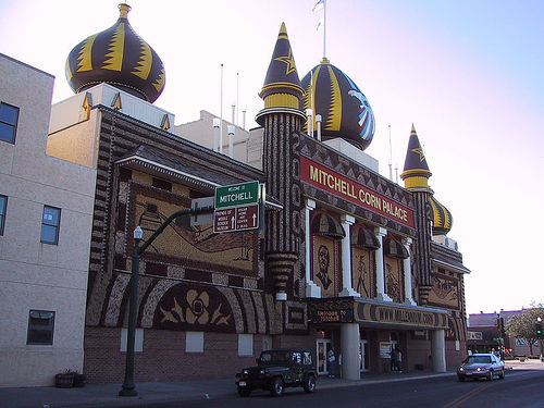 Street view of the Corn Palace in Mitchell, South Dakota.